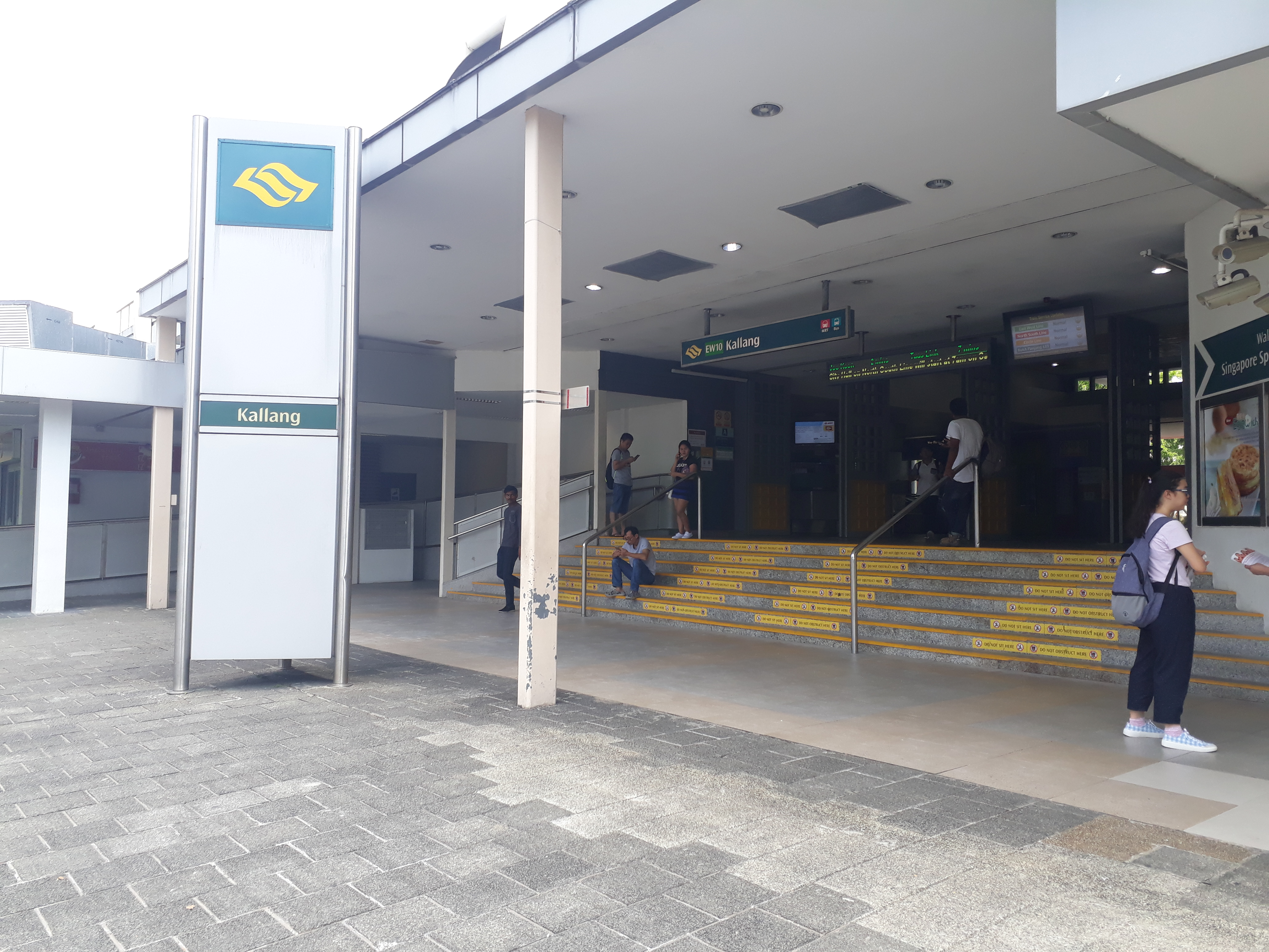 EW10 Kallang Exit A